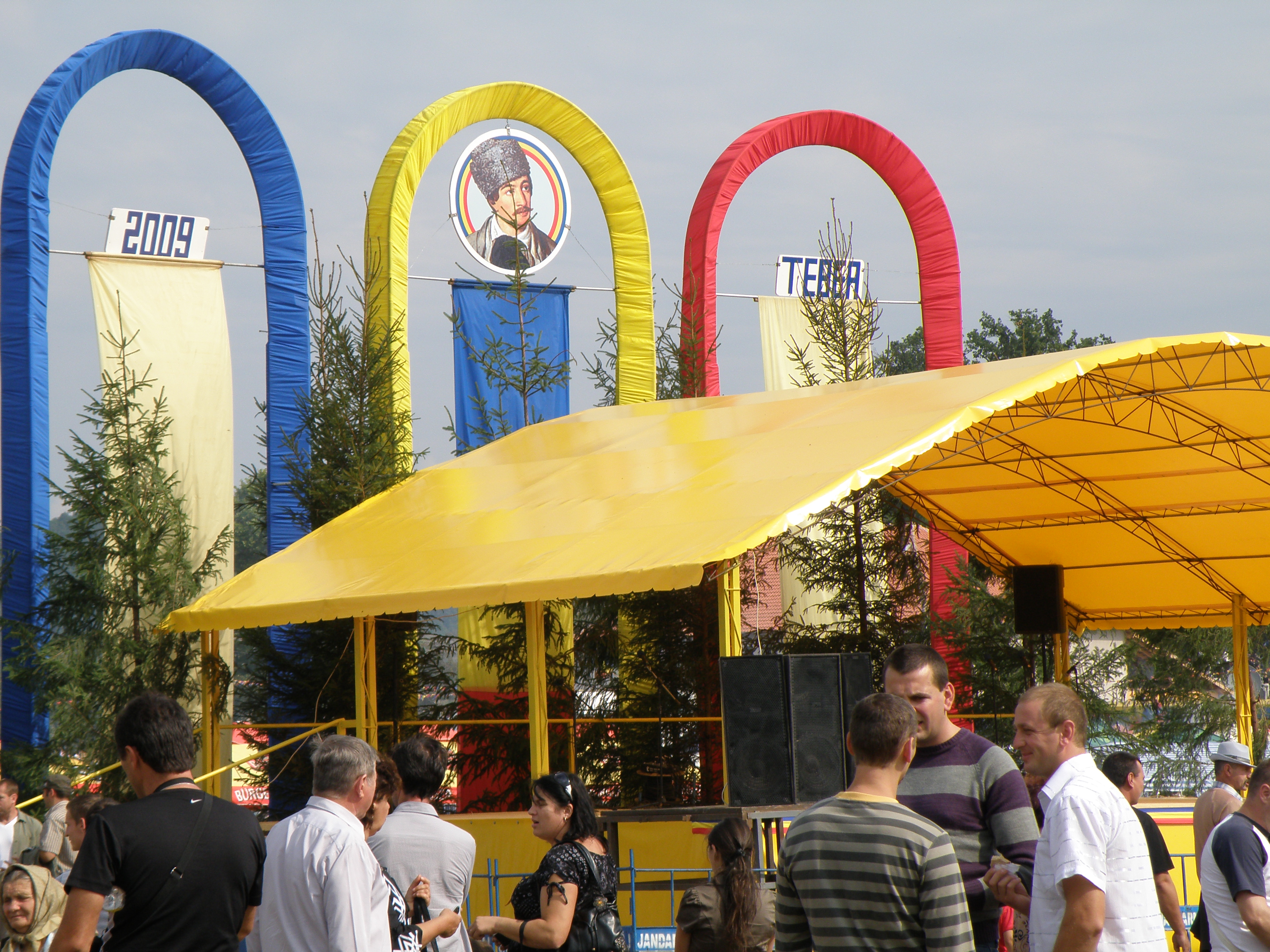 Foto from Tebea